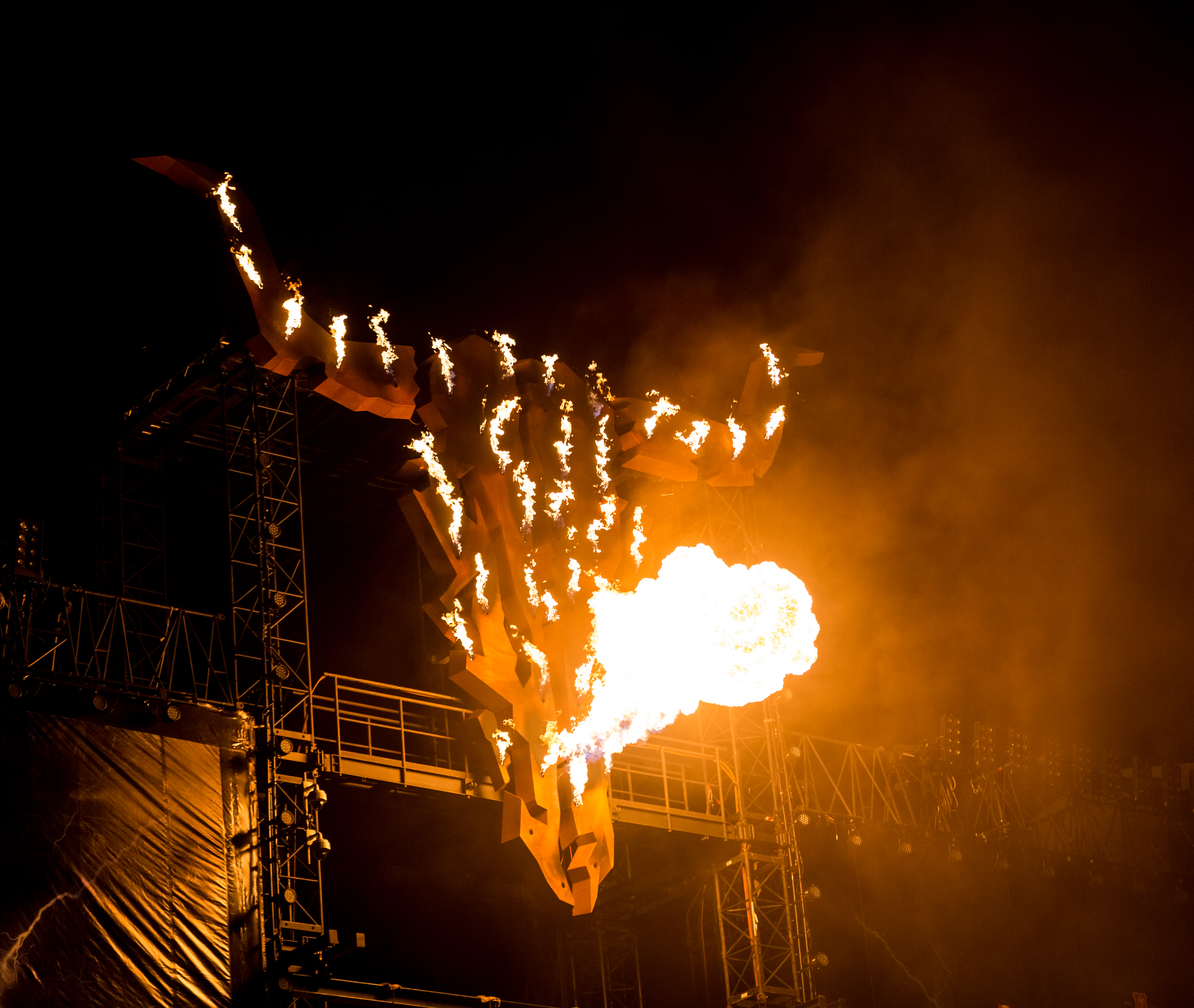 Festival area - Wacken Open Air 2015